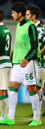 Tobias Figueiredo